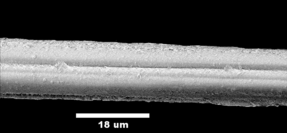 Scanning electron microscope image of a rayon fibre